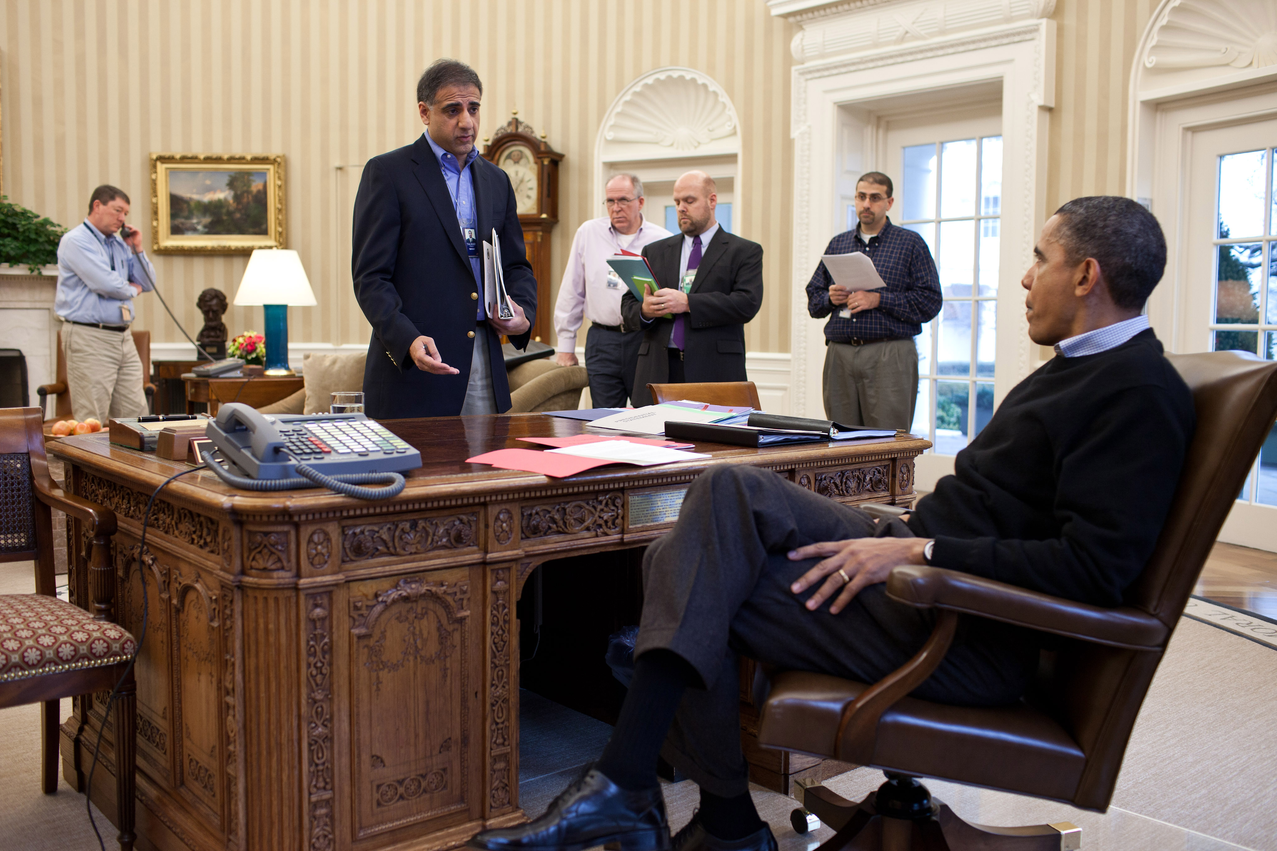 President Barack Obama is briefed by Puneet Talwar, Senior Director for Iraq, Iran and the Gulf States, in the Oval Office, Saturday, Feb. 5, 2011. (Official White House Photo by Pete Souza)